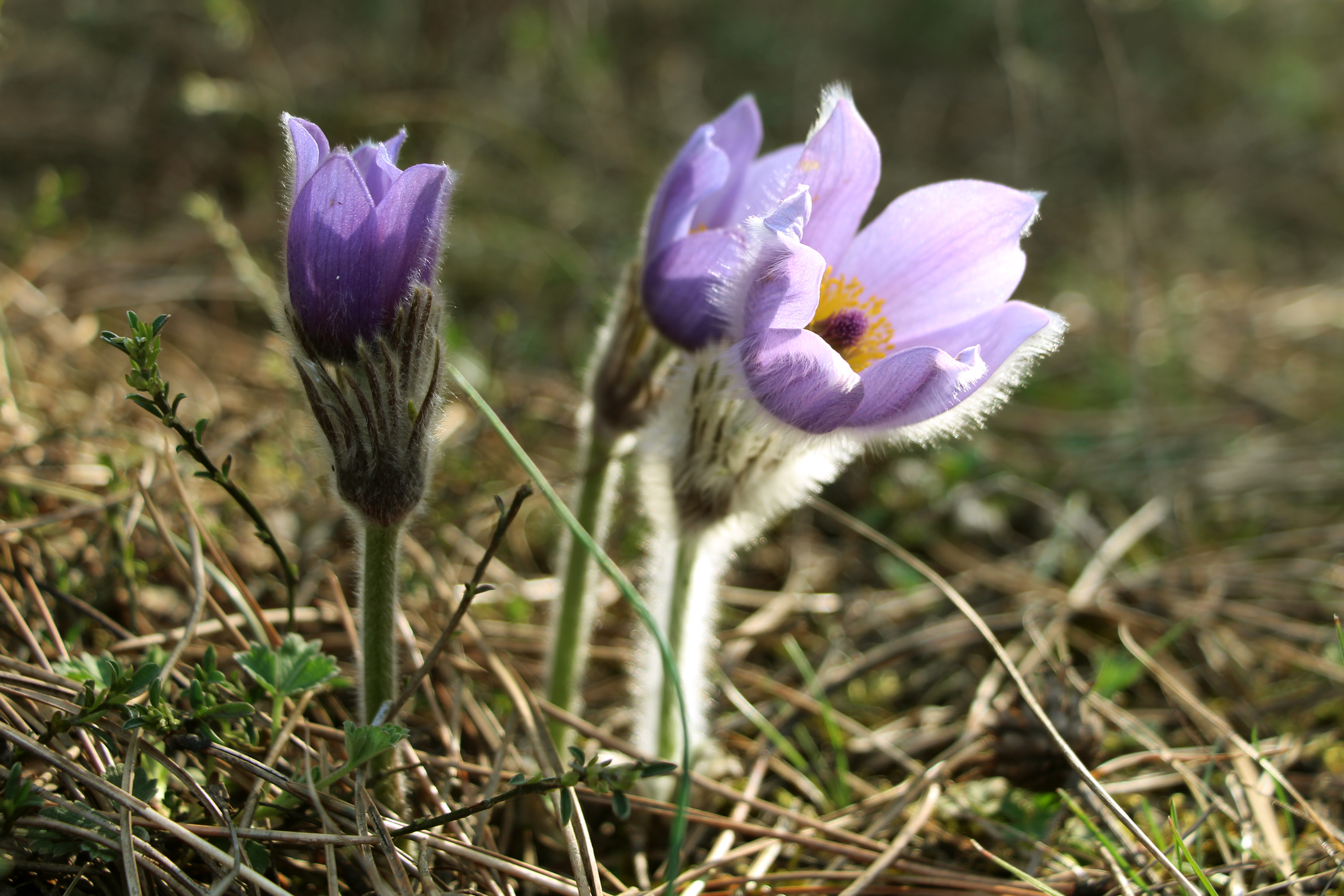 I shot the picture on March 28, 2020 in Pilisvörösvár (Pest County, Hungary) on Calvary Hill.